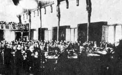 Photo from a session of the Hague Peace Conference of 1907